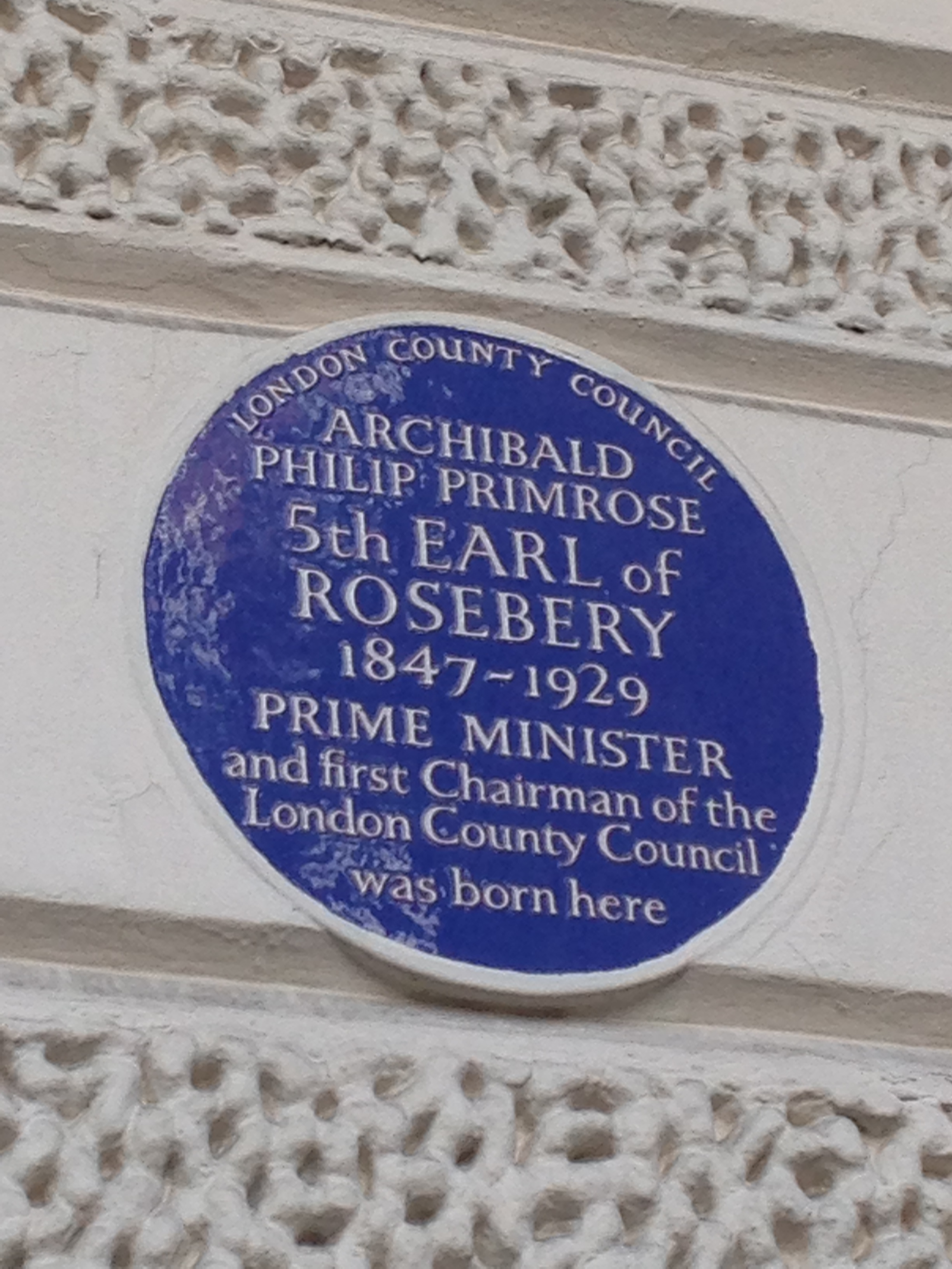 The London County Council blue plaque for the Archibald Primrose, 5th Earl of Rosebery at 20 Charles Street, Mayfair, London W1J 5DT in the City of Westminster.